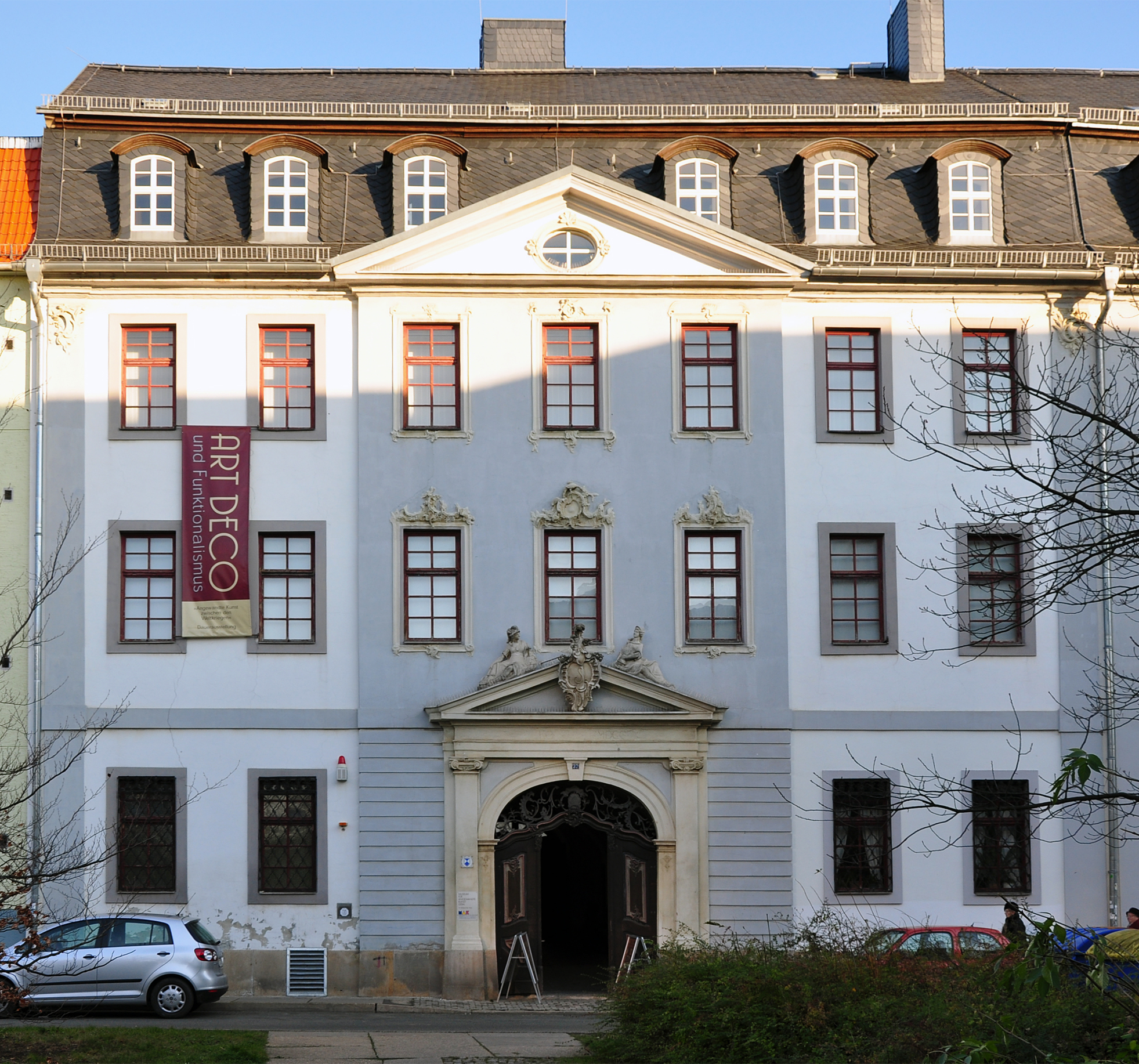 Gera - Museum of Applied Arts (Ferbersches Haus)